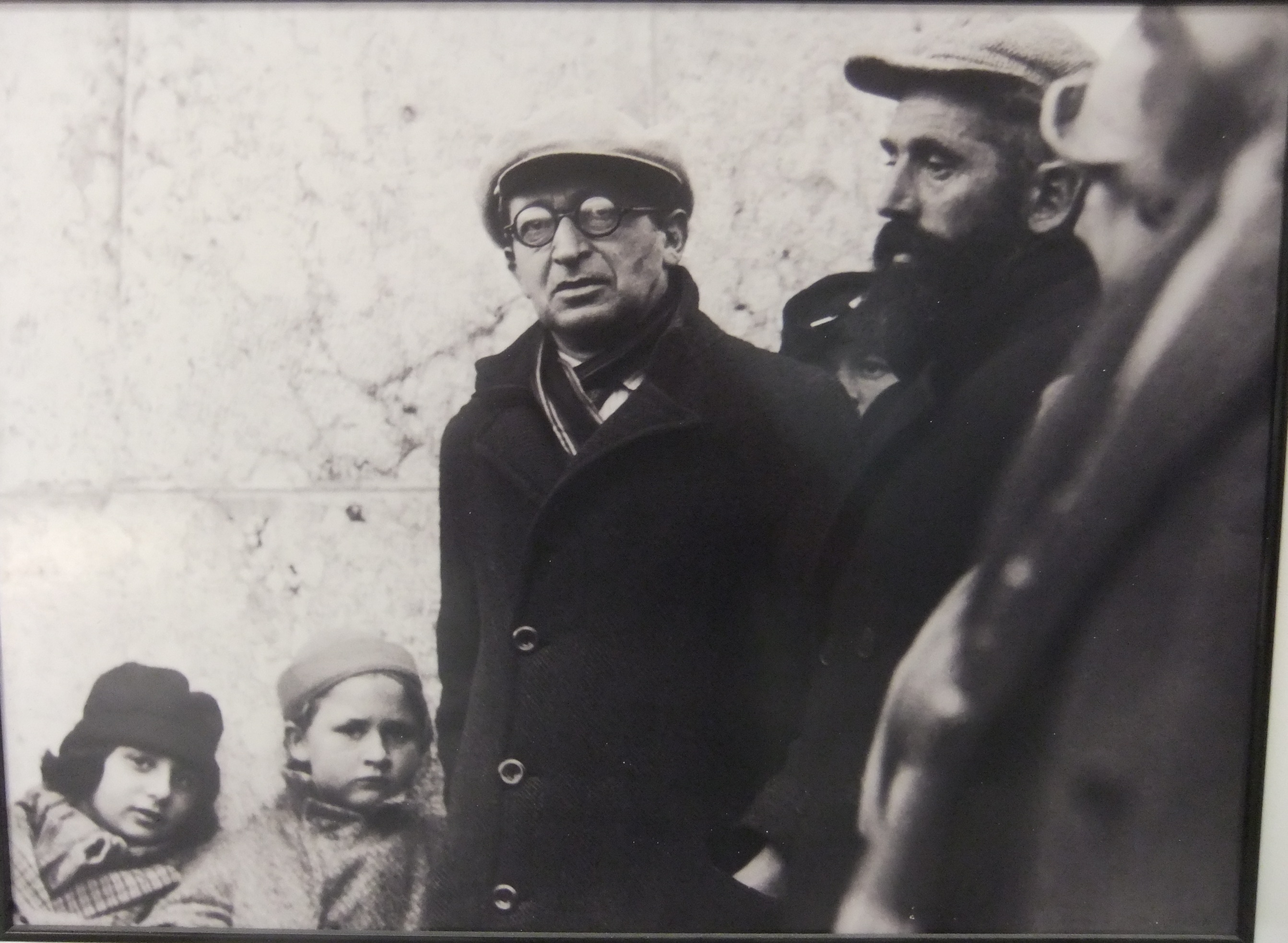 Yitzhan Ben Zvi, one of the founders of Hashomer and Eliezer Krol, a founder of Kfar Giladi at the ceremony establishing the roaring lion status on 7 Adar 1934